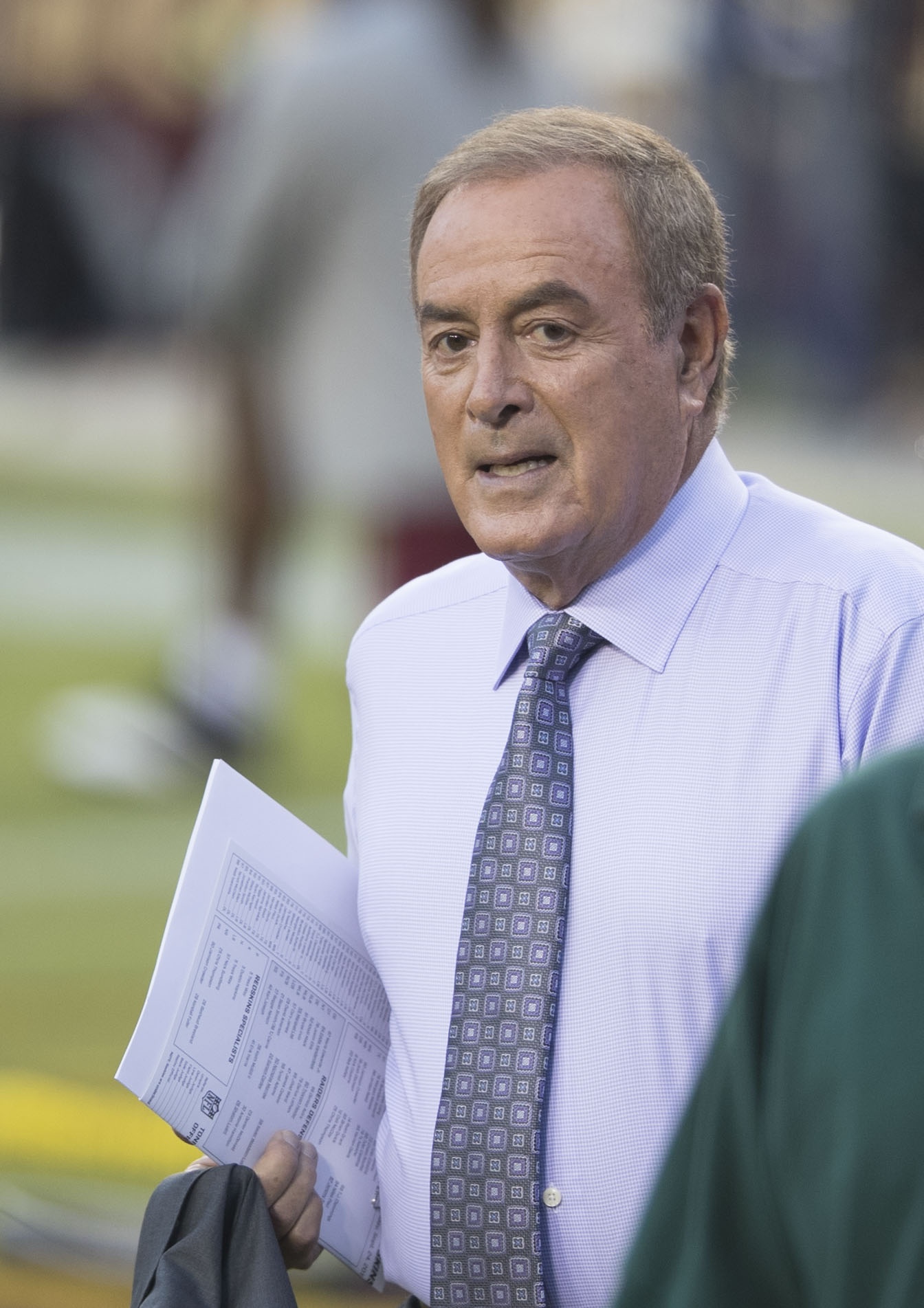 Al Michaels during the Washington Redskins and Los Angeles Rams game in September 2017.